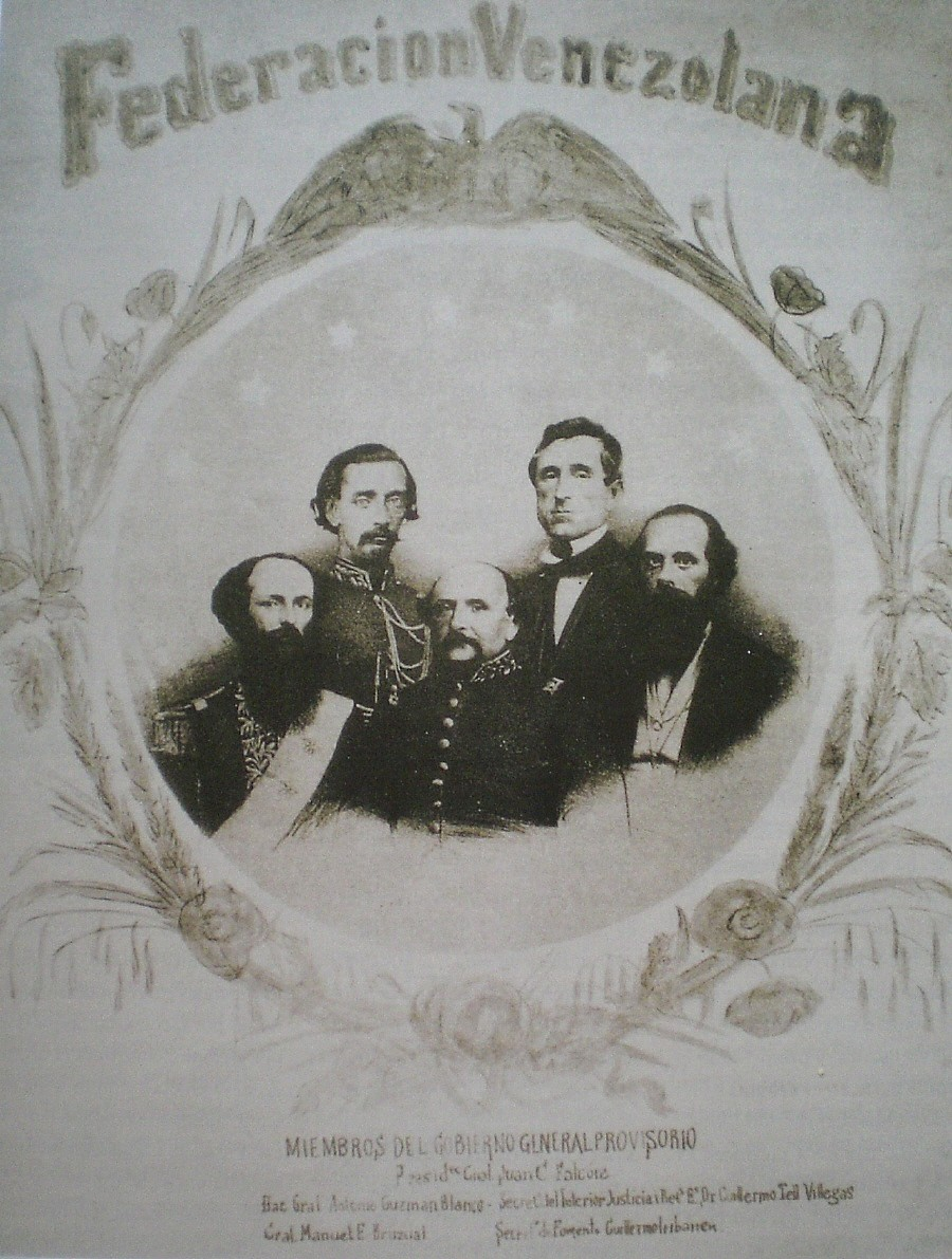 Poster allusive to the Venezuelan provisional government, after the Triumph of Federation. Center: Juan Crisóstomo Falcón, Left: Antonio Guzmán Blanco, Right: Guillermo Tell Villegas. Back: Left: Manuel Ezequiel Bruzual, Left: Guillermo Iribarren.